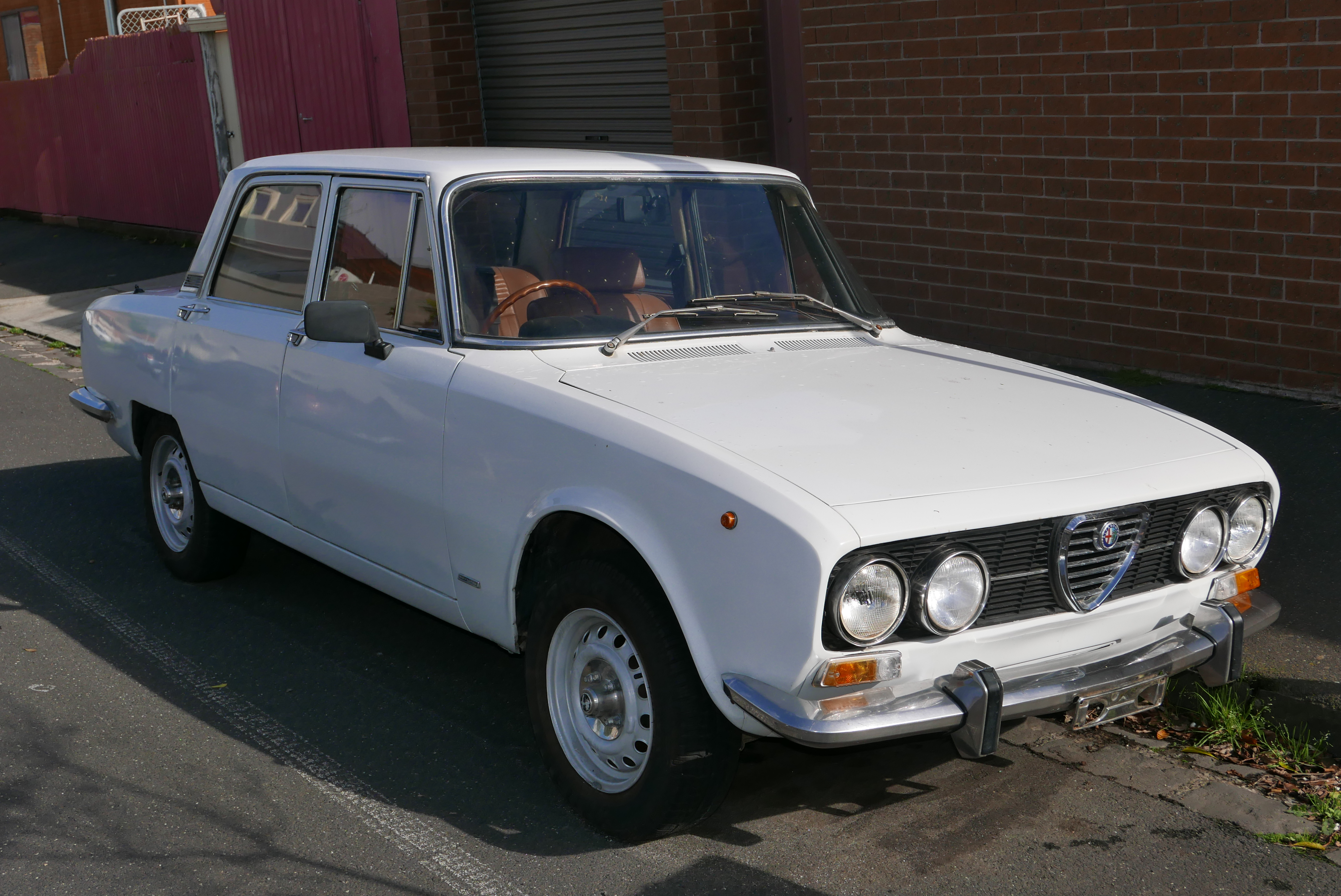 1972 Alfa Romeo 2000 Berlina sedan. Year of manufacture assumed based on the registration plate KWE-383 (expired) and the Australian release date being June 1972 according to RedBook. Photographed in Brunswick, Victoria, Australia.